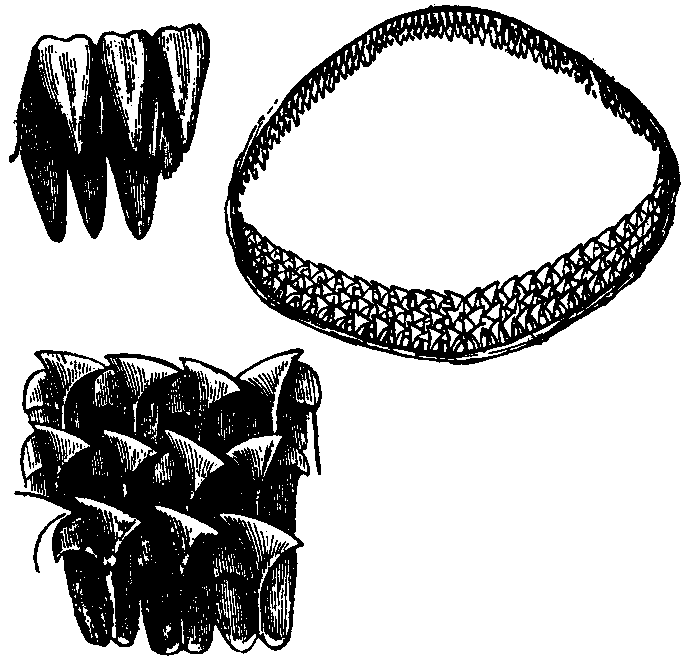 Drawing of the dentition of a Greenland shark (Laemargus borealis)